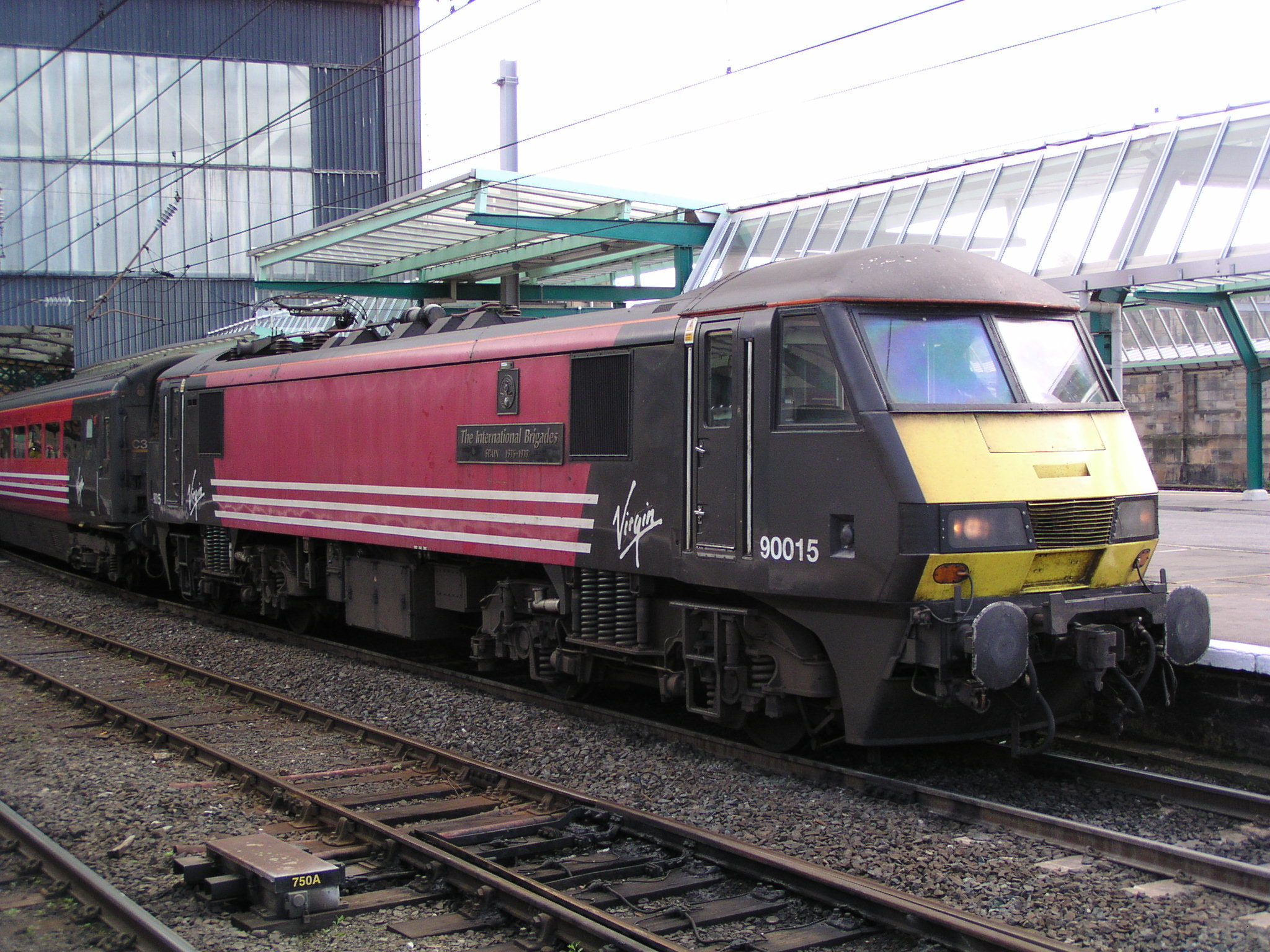 BR Class 90/0, no. 90015 "The International Brigades Spain 1936-1939" at Carlisle station on 27th August 2004. This locomotive is pictured hauling the final Class 90 service for Virgin Trains, with a London Euston-Glasgow Central service and return.